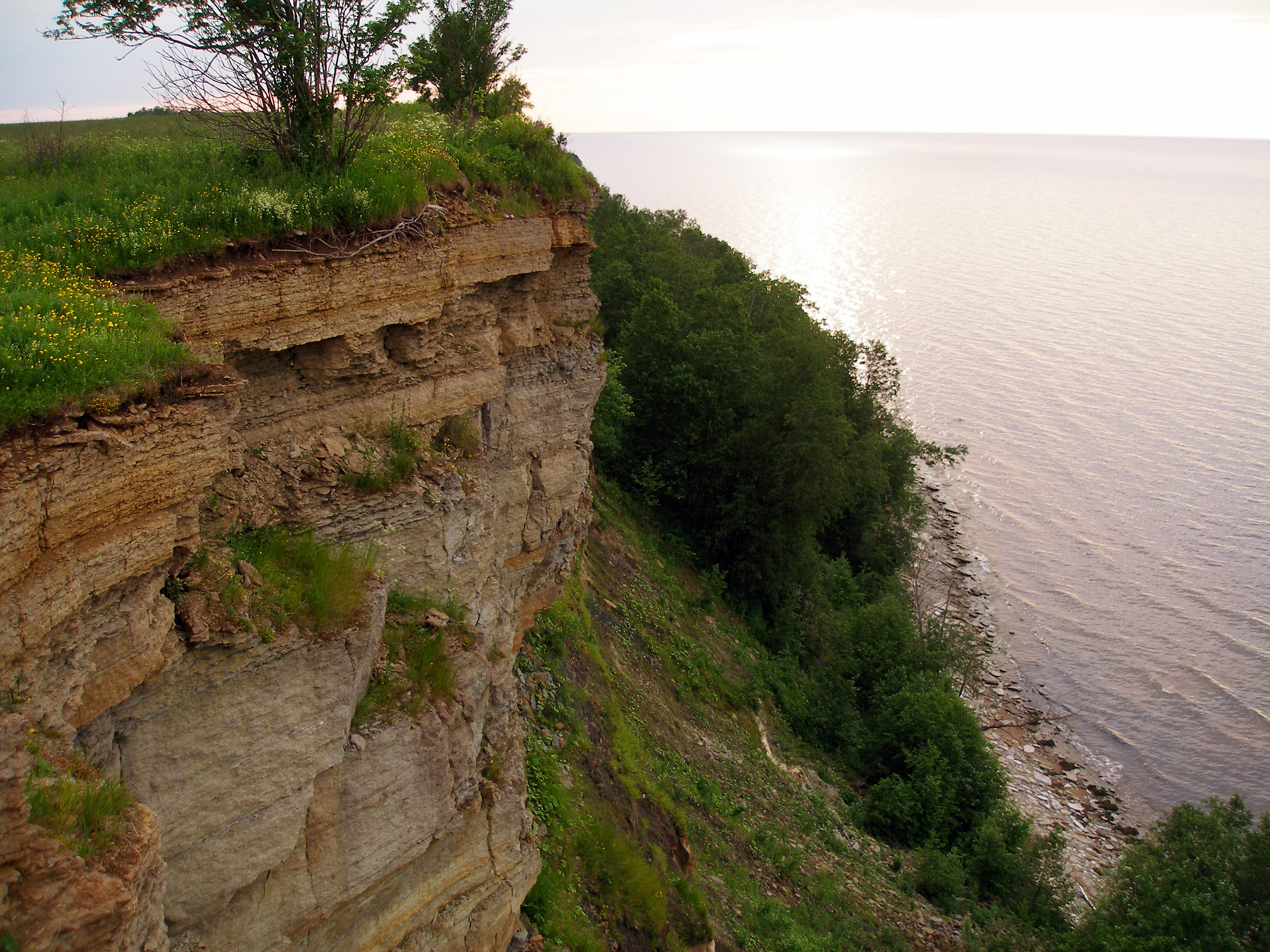 Päite cliff, part of Baltic Klint, near Sillamäe, Estonia.